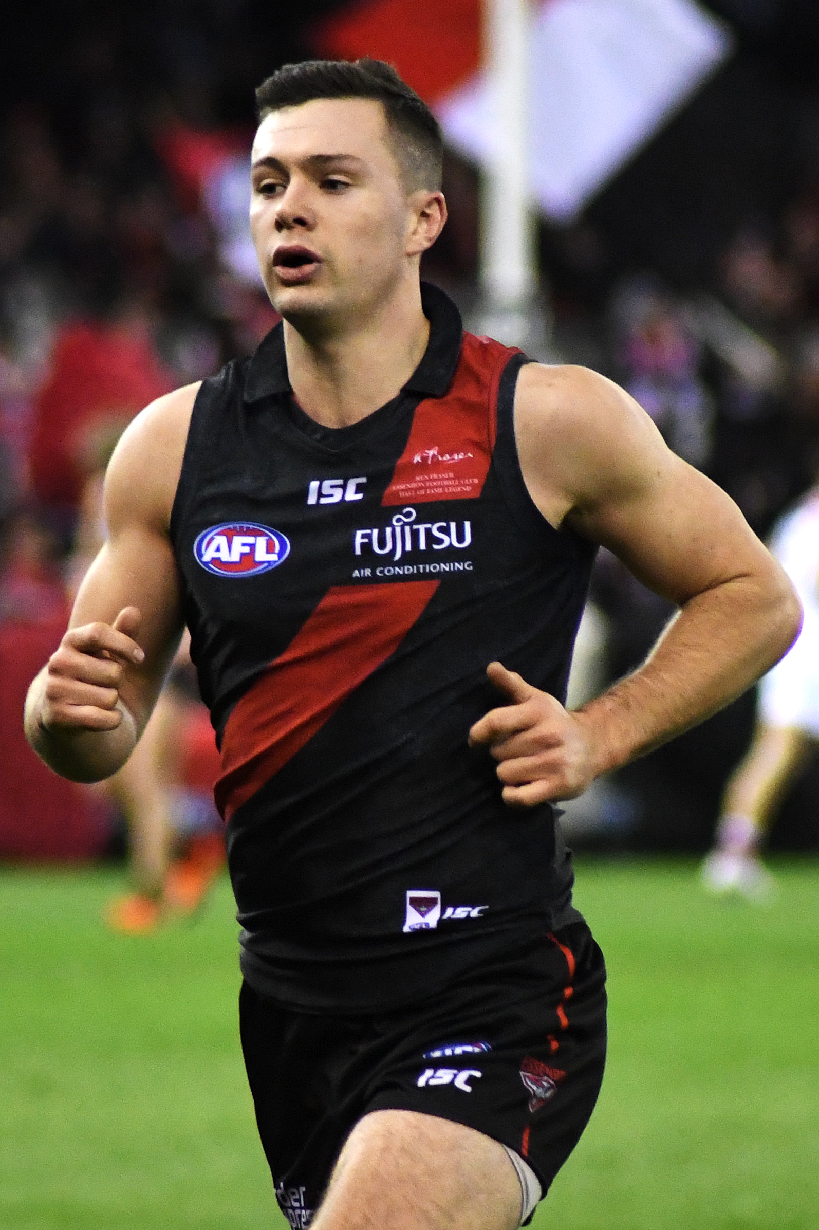 Conor McKenna of Essendon during the 2018 AFL round 21 match between Essendon and St Kilda at Etihad Stadium on Friday, 10 August 2018 in Melbourne, Victoria.